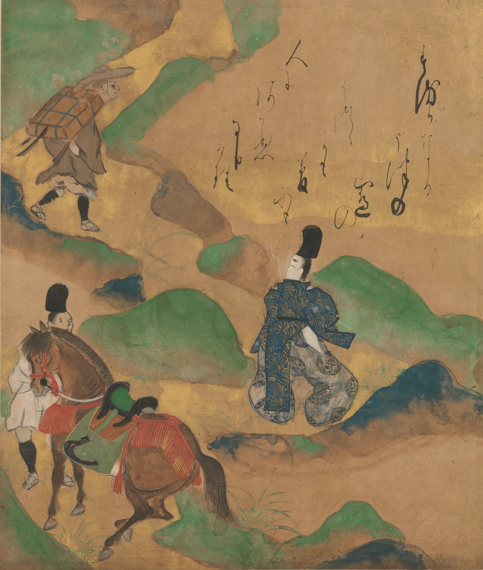 Mount Utsu (Utsu no yama), from The Tales of Ise (Ise monogatari) painted by Tawaraya Sōtatsu and inscribed by Takeuchi Toshiharu, Edo period poem card (shikishi), ca. 1634, ink, color, and gold on paper, 9 11/16 × 8 3/16 in. (24.6 × 20.8 cm), Metropolitan Museum of Art